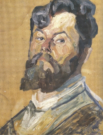 Oleksa Novakivsky